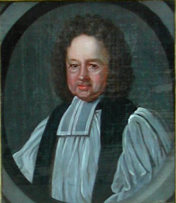 Thomas Sherlock (1678-1761)